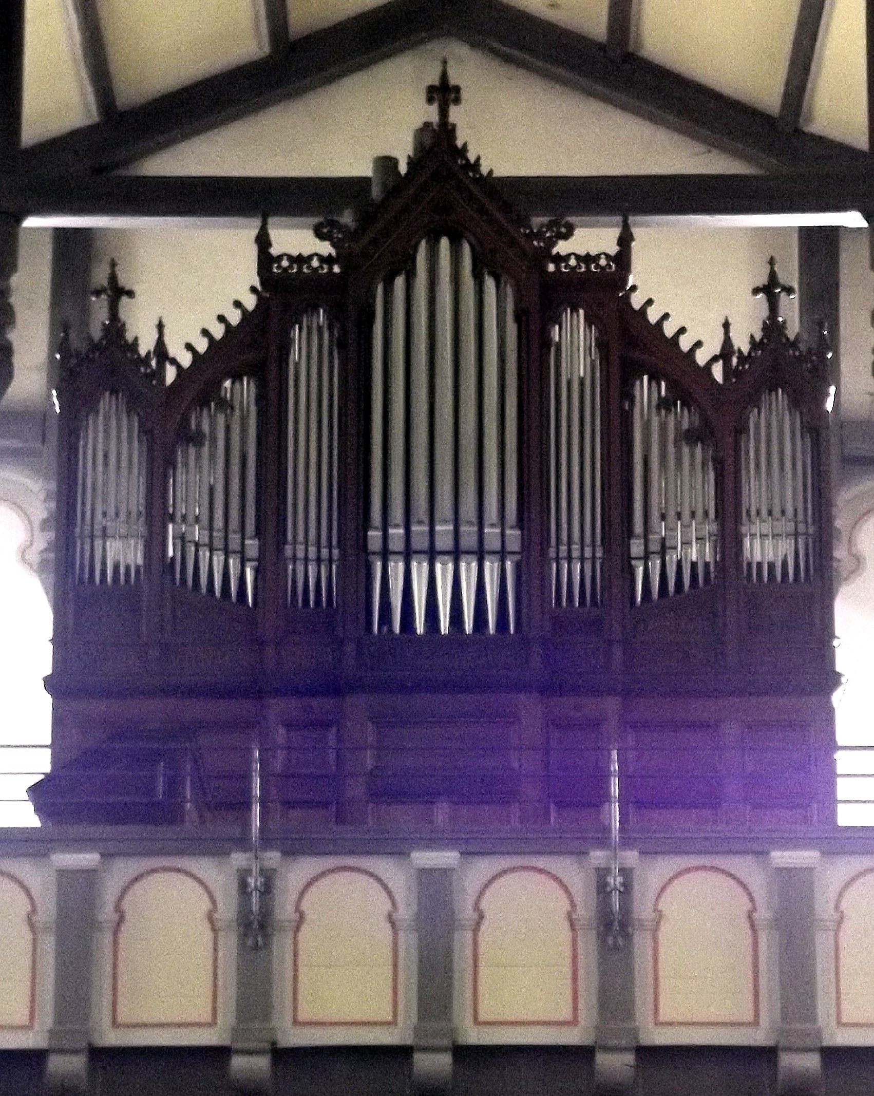 Hock-organ of the church in Konfeld, Saarland, Germany